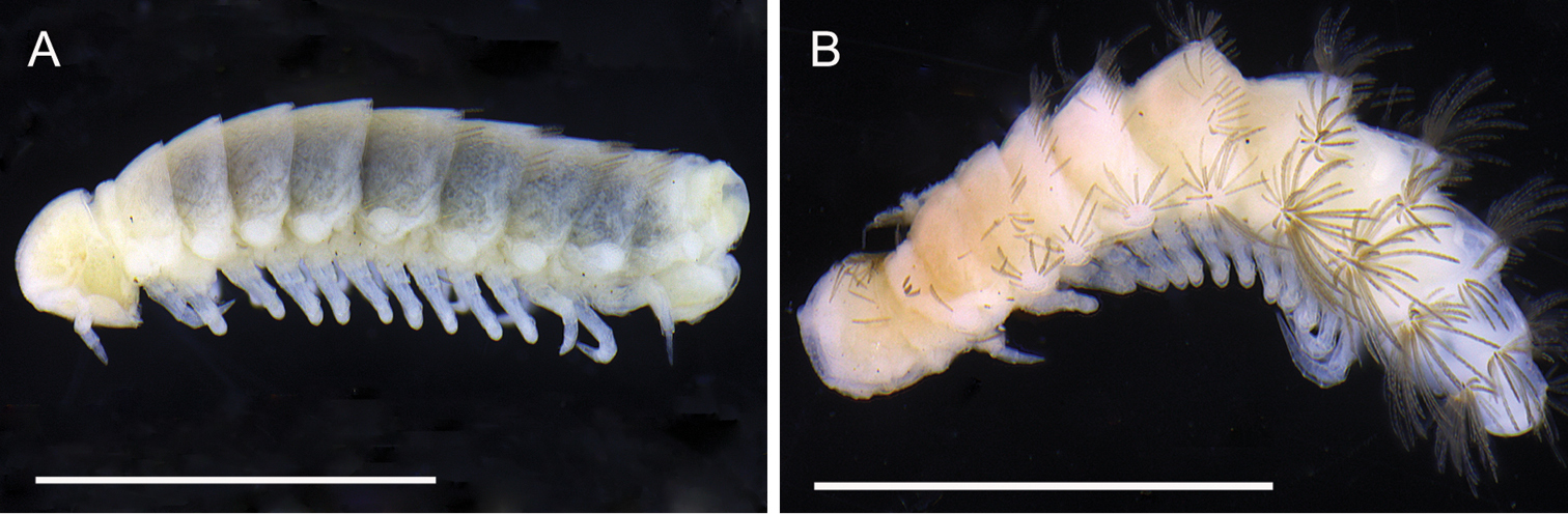 Lophoproctus coecus (Pocock, 1888) Krasnodar Province, Russia. A: Lateral view showing antenna. B: Dorso-lateral view showing tergal trichomes. Scale bars: 1 mm.